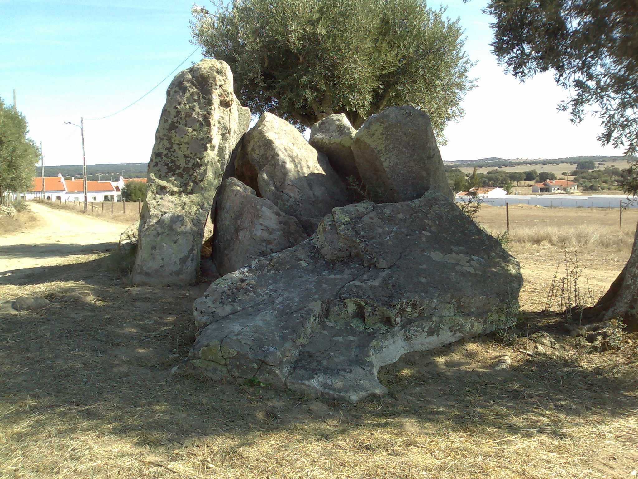 Anta de Aguiar, Portugal